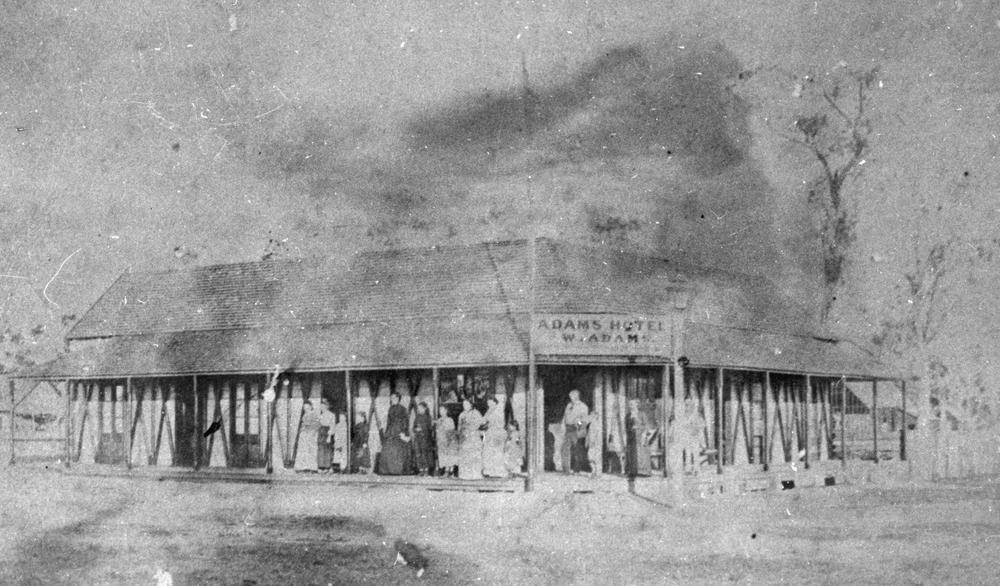 Adams Hotel, on the south-east corner of Burbong and Barolin Streets, Bundaberg. Built and run by Walter Adams from about 1874.